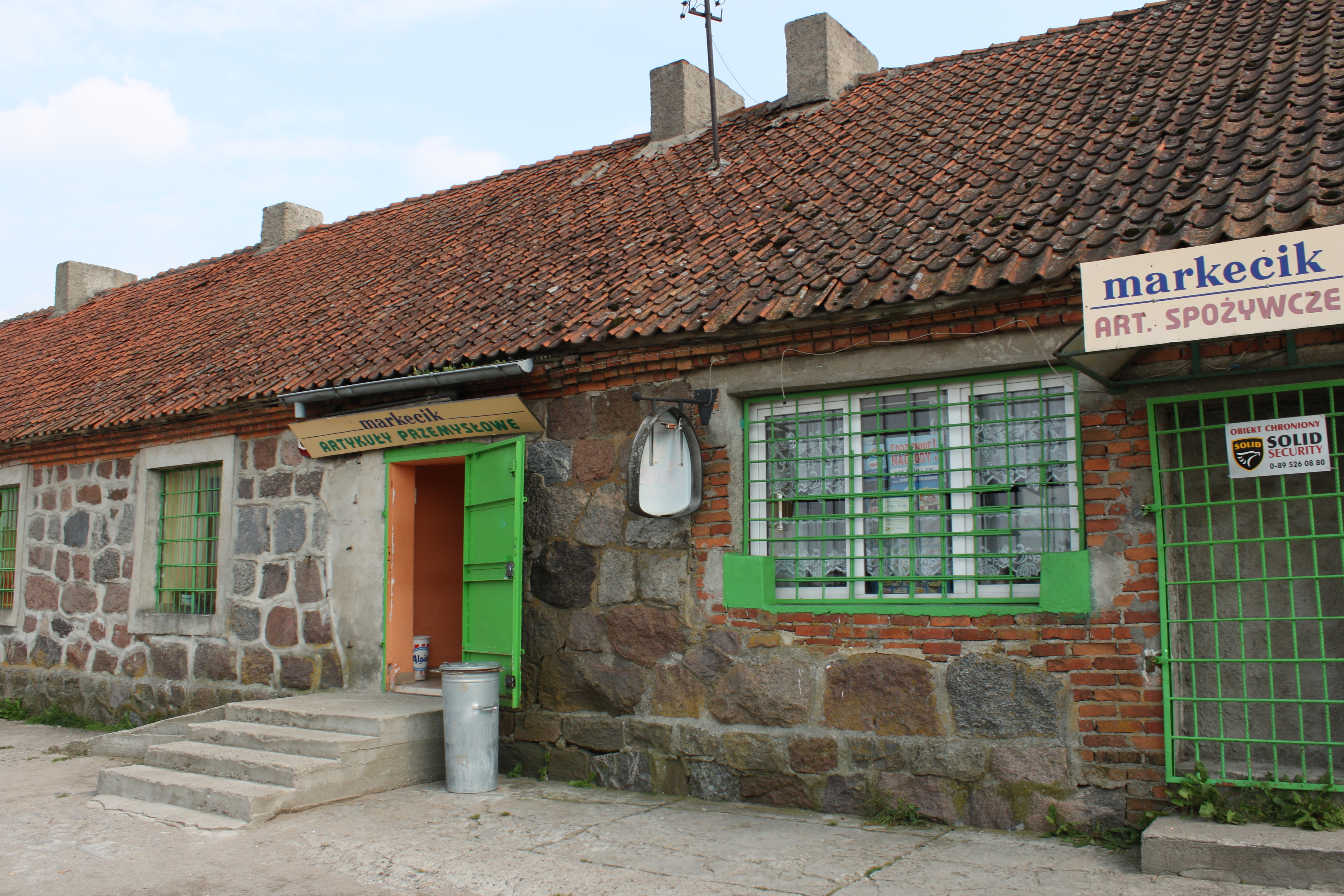 Building in Orzyny.